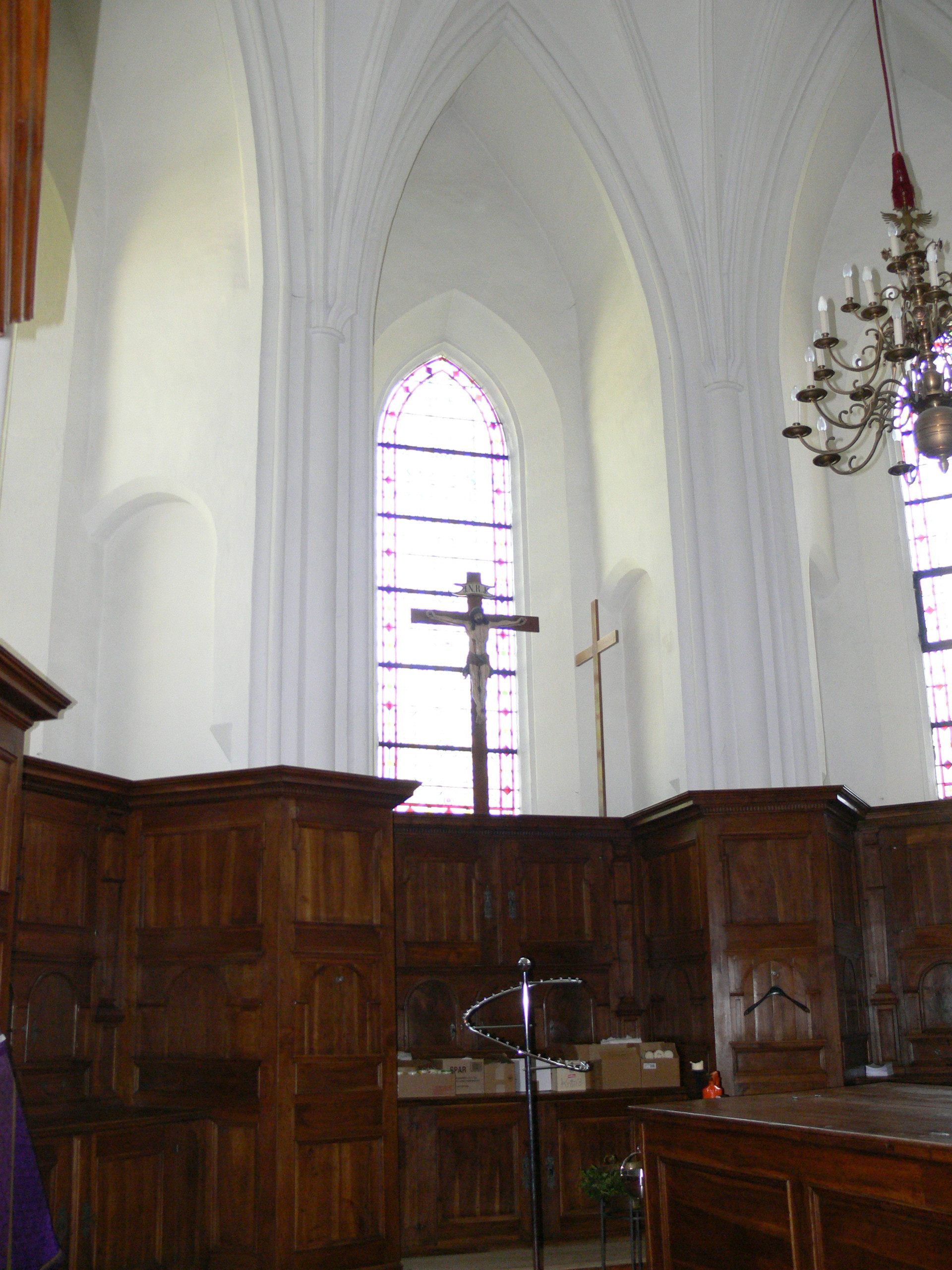 St.Michael parish church in Mondsee ( Upper Austria ). Vestry: Baroque interior ( 18th century )